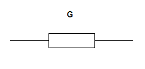 A lumped component conductance